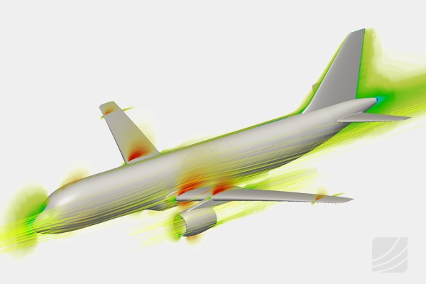 This image shows the simulation of airflow around an aircraft at low subsonic compressible flow regime. The CFD analysis was performed with the SimScale cloud-based CAE platform.